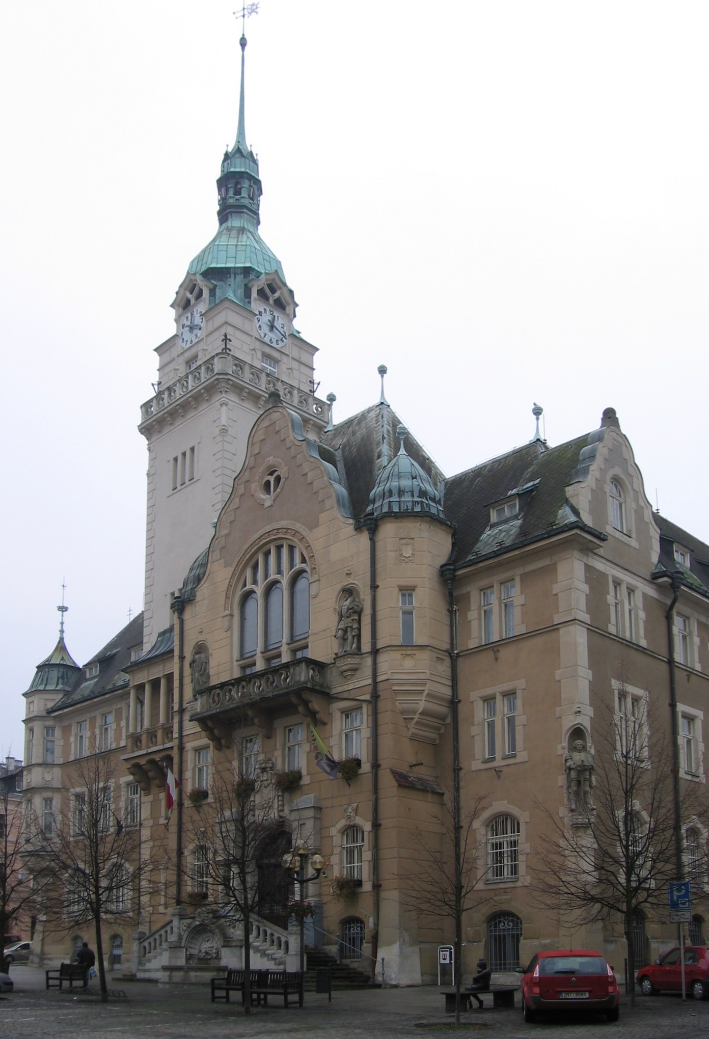 Town Hall in Šumperk (Olomouc Region, Czech Republic)